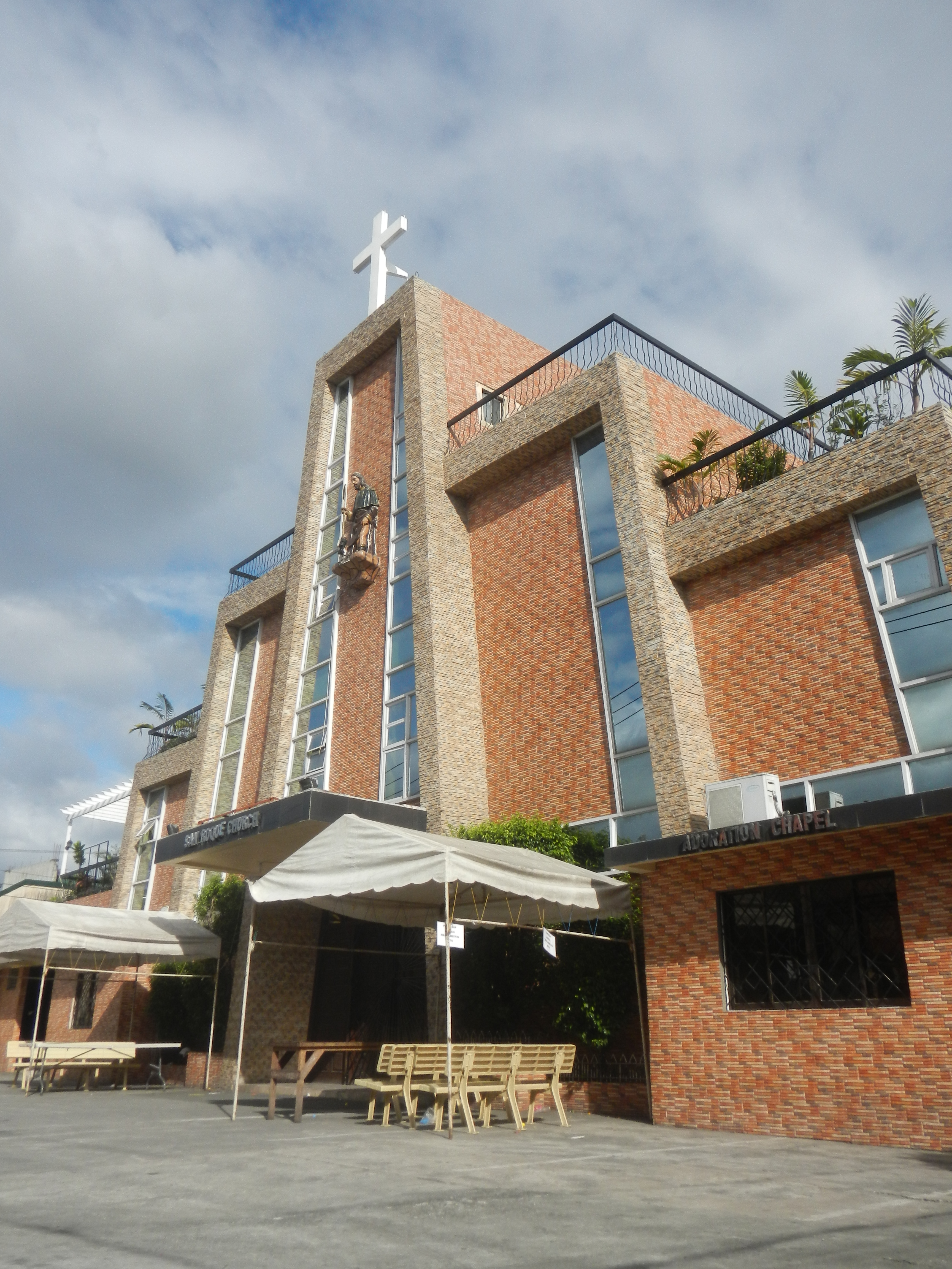 Roman Catholic Archdiocese of Manila Pasay City San Roque Parish 14°32'19"N 121°0'19"E Cabrera Street 14°32'26"N 121°0'20"E corner San Roque Street accessed from the EDSA-Tramo Flyover - Aurora Boulevard, Pasay City Malibay Bridge Sta Limit 30+485 Load Limit 20 metric tons Malibay Bridge (EDSA, Pasay City) Malibay 14°32'7"N 121°0'33"E List of barangays of Metro Manila Legislative district of Pasay Barangays 114, 115, 116, 117, 118, 119, 120, Zone 14, 141, 142, 143, Zone 15, 144, 145, 159, 160, 161, 162, 162, 163, 164, 165, 166, 167, 168, 169, Zone 17, 170, 171, Zone 20, District 2, Malibay, Pasay City along Epifanio de los Santos Avenue (EDSA) 14°34'40"N 121°3'3"E EDSA (road) corner Taft_Avenue, Taft Avenue MRT Station Strong Republic Transit System (SRTS) (Note: Judge Florentino Floro, the owner, to repeat, Donor Florentino Floro of all these photos hereby donate gratuitously, freely and unconditionally all these photos to and for Wikimedia Commons, exclusively, for public use of the public domain, and again without any condition whatsoever).